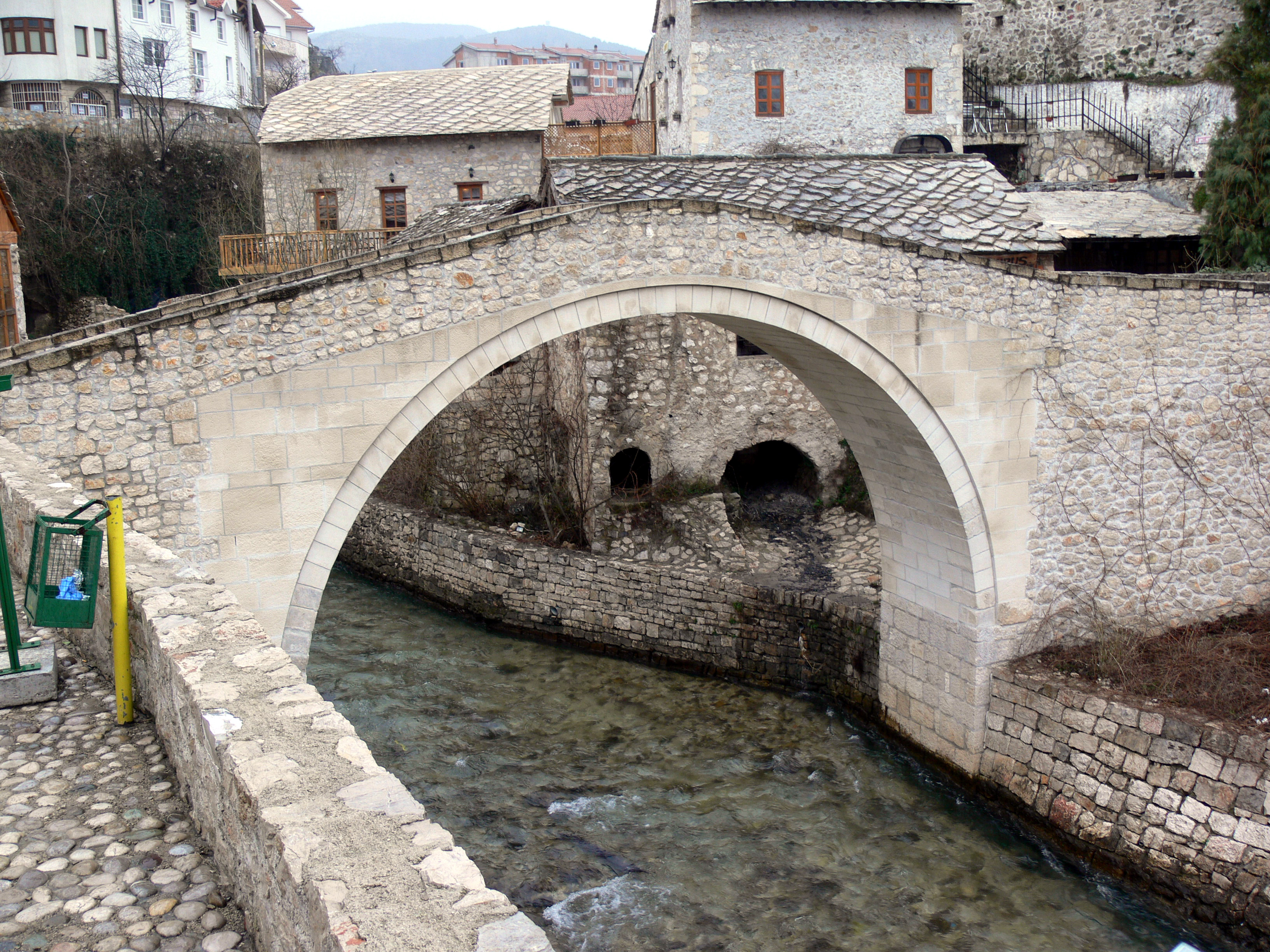 The old bridge "Kriva Ćuprija" = "Crooked Bridge" in Mostar.